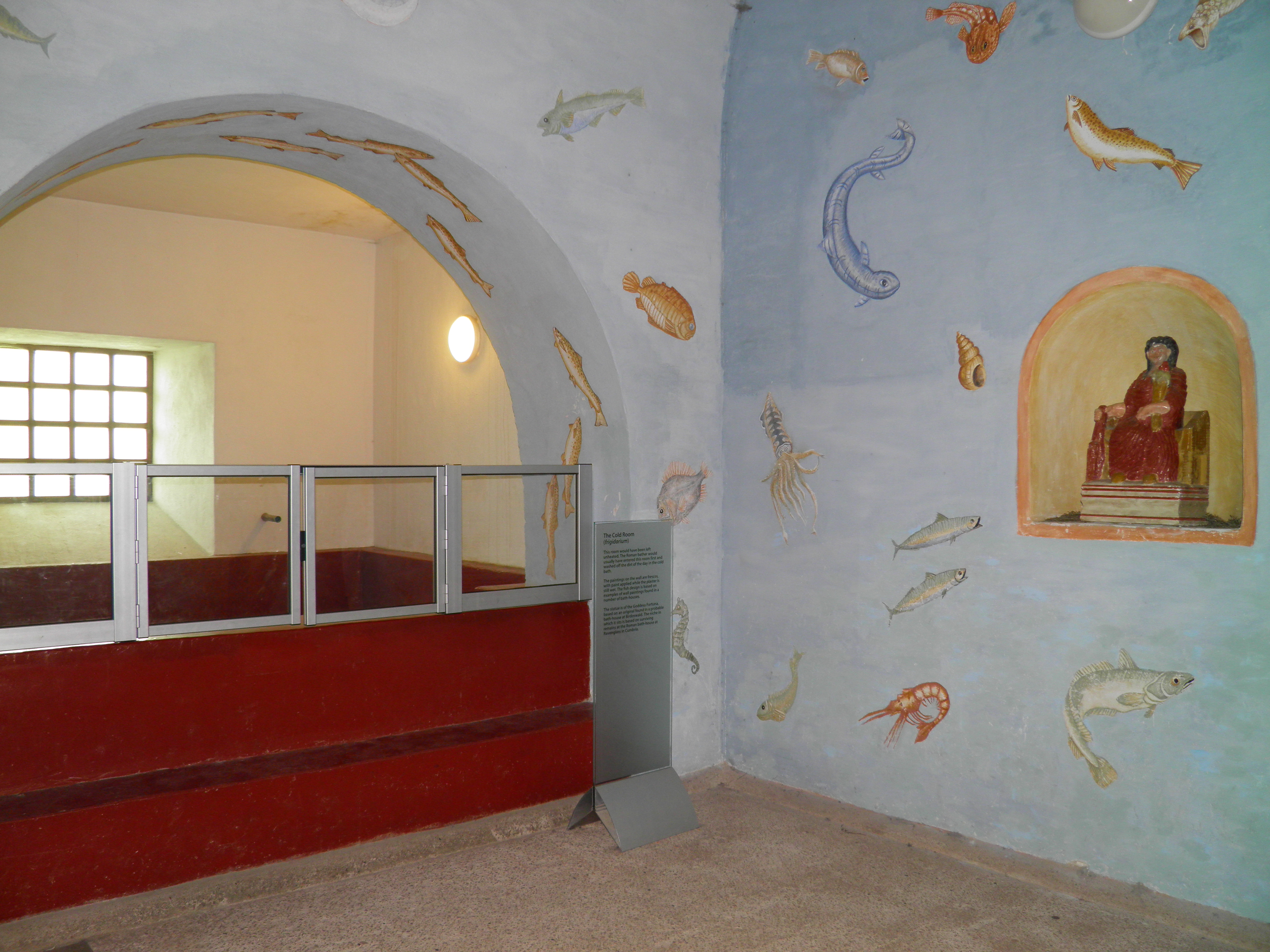 The replica Roman bath house at Segedunum fort in Wallsend